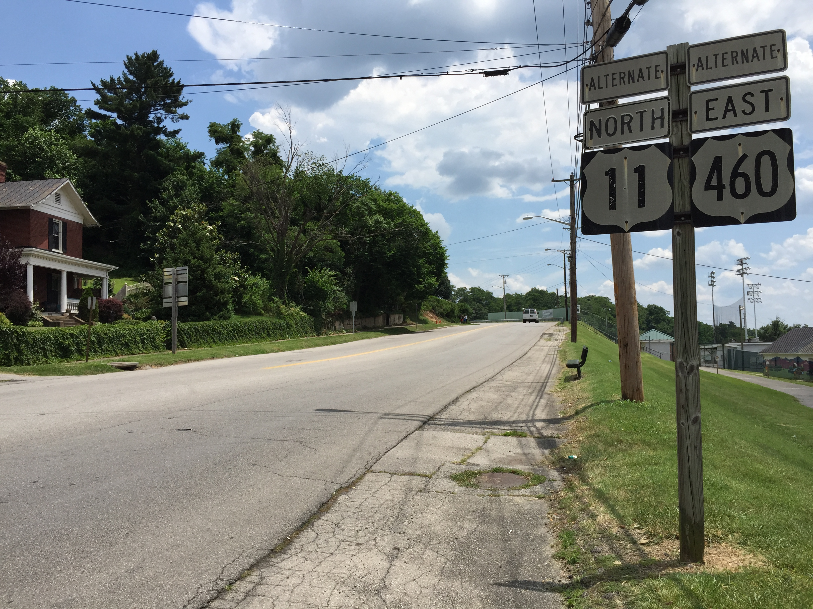 View north along U.S. Route 11 Alternate and east along U.S. Route 460 Alternate (Roanoke Boulevard) at Florida Street in Salem, Virginia